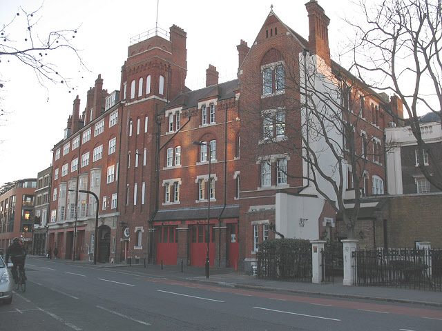 Fire station, Southwark Bridge Road. The station is adjacent to the London Fire Brigade training centre 1750151.